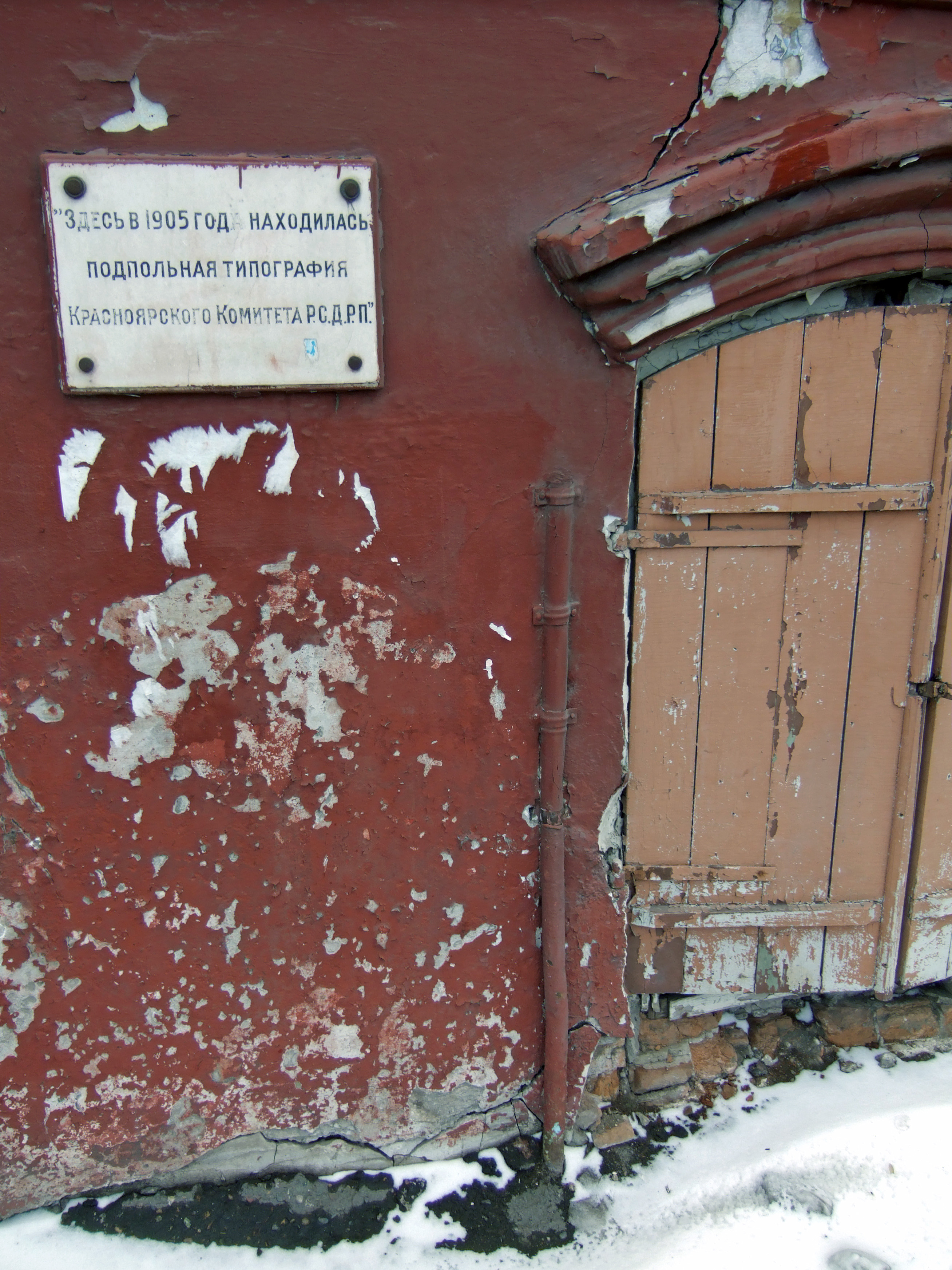 The old RSDLP typography in Krasnoyarsk, Russia. The plaque says: "The underground typography of the Krasnoyarsk RSDLP Committee located here in 1905". Krasnpyarsk, Ada Lebedeva street, 93